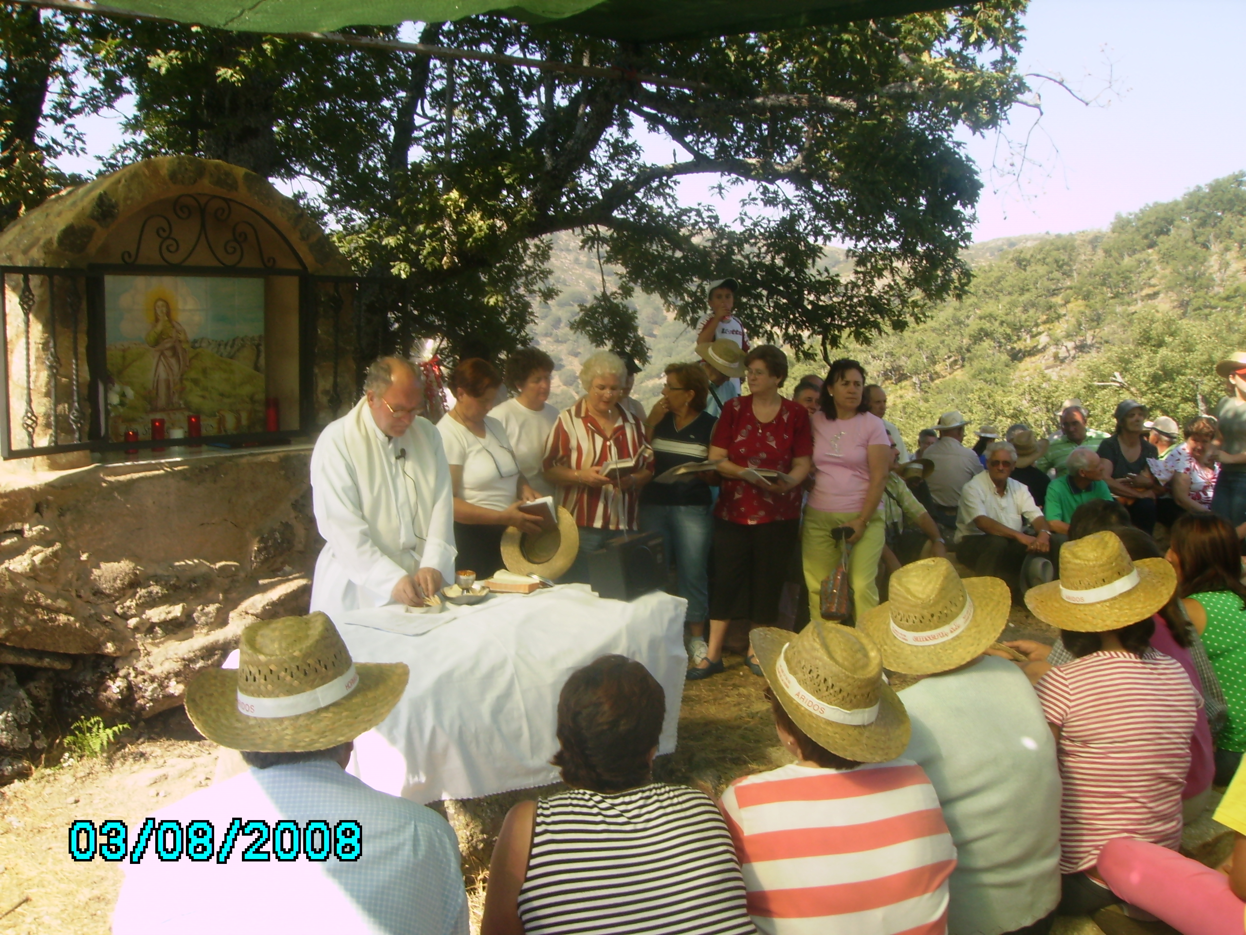 church en la virgen de las nieves